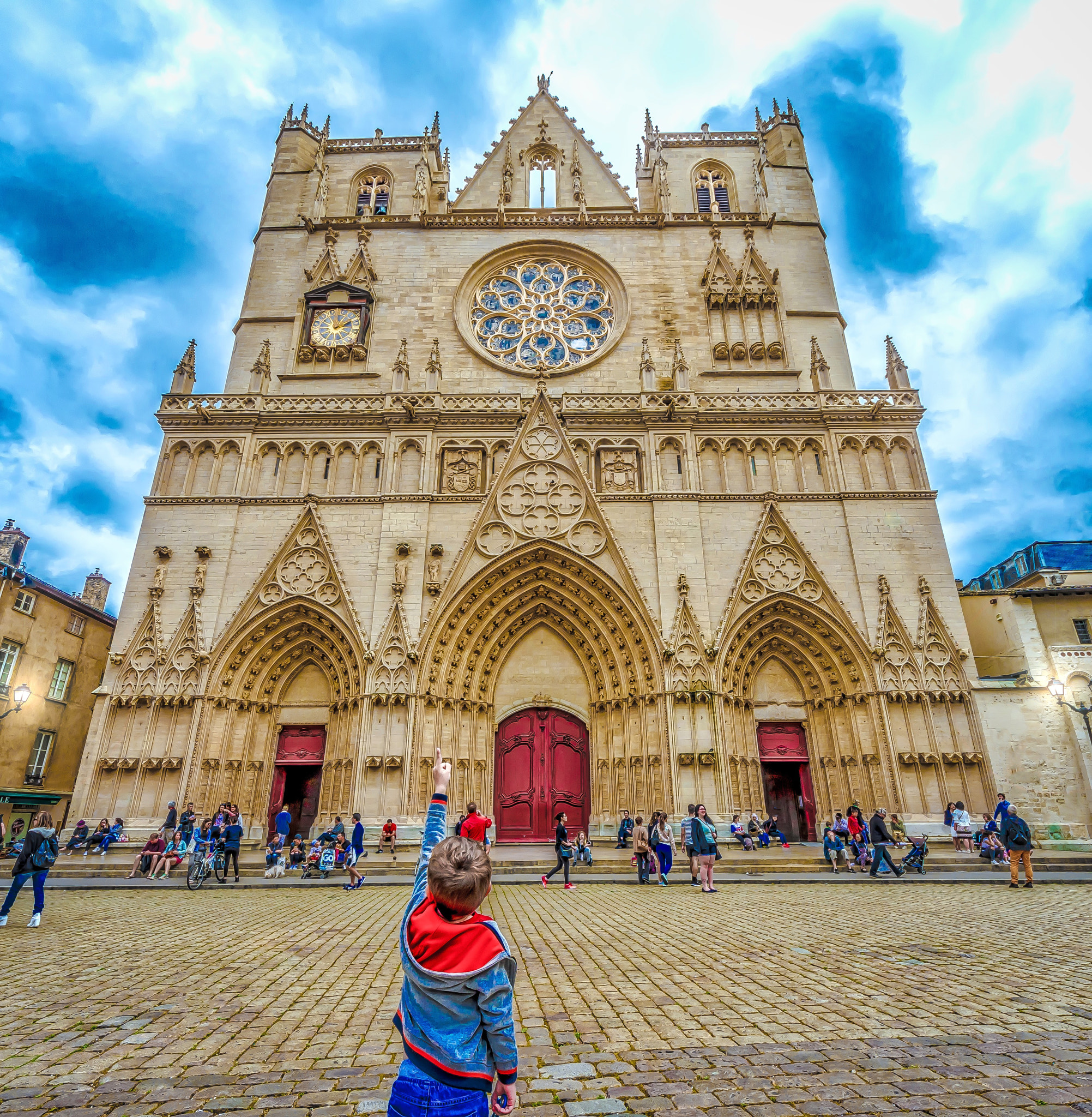 500px provided description: Sa construction s'?tale sur trois si?cles, de 1175 ? 1480, Elle est situ?e dans le cinqui?me arrondissement de Lyon, au c?ur du quartier m?di?val et Renaissance du Vieux Lyon, dont elle est un des ?l?ments marquants. Au Moyen ?ge, elle faisait partie d'un complexe d'?glises et d'autres b?timents eccl?siaux. Fortement endommag?e par les guerres de religion en 1562, puis par la R?volution fran?aise et le si?ge de Lyon en 1793, la primatiale est restaur?e au xixe si?cle. Le 5 d?cembre 1998, elle a ?t? reconnue patrimoine mondial au titre de sa localisation dans le site historique de Lyon. . Its construction dates back three centuries, from 1175 to 1480. It is located in the fifth arrondissement of Lyon, in the heart of the medieval and Renaissance quarter of Vieux Lyon, of which it is one of the most striking elements. In the Middle Ages, it was part of a complex of churches and other ecclesial buildings. Strongly damaged by the wars of religion in 1562, then by the French Revolution and the siege of Lyon in 1793, the primacy was restored in the nineteenth century. On 5 December 1998, it was recognized as a World Heritage Site by its location in the historic site of Lyon. [#landscape ,#nature ,#travel ,#church ,#tourism ,#beautiful ,#cute ,#love ,#child ,#history ,#france ,#traveler ,#castle ,#cathedral ,#photography ,#medieval ,#lyon ,#voyage ,#mahe ,#animation ,#tourisme ,#histoire ,#photooftheday ,#picoftheday ,#eglise ,#rhonealpes ,#liveyourdream ,#lookmom ,#manalyss ,#animatedimages]